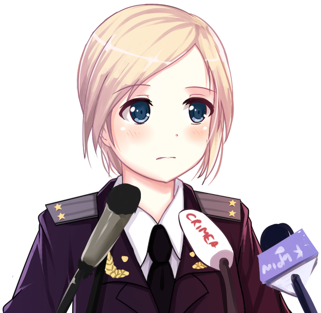 Natalia Poklonskaya fan-art by Itachi Kanade